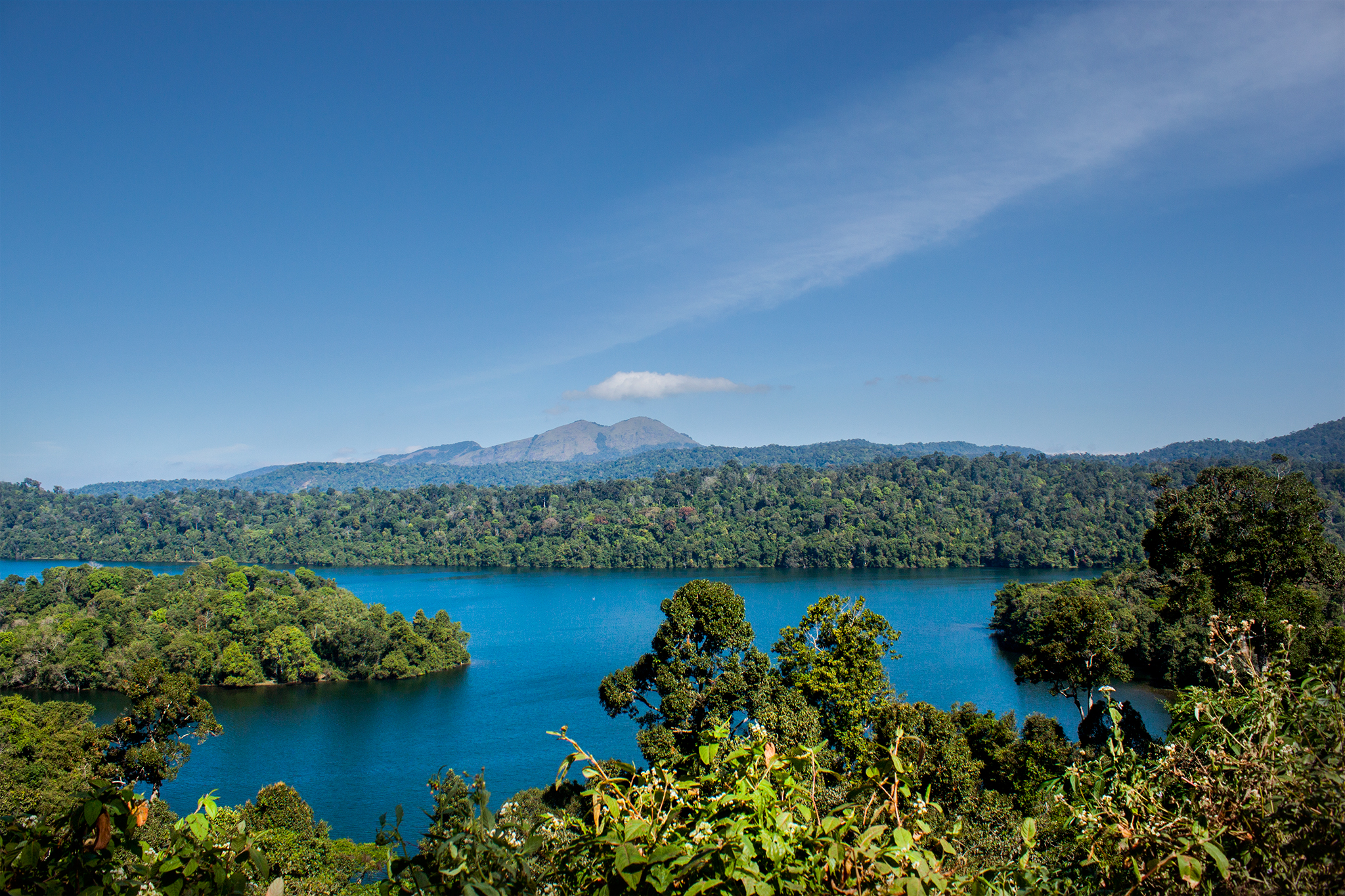 Western Ghats are mountain range on the west coast of Indian peninsula. Stretching from Mumbai area to Kerala, it is a major, eco-diverse regions in South Asia. Scenery, Nature in India 2013